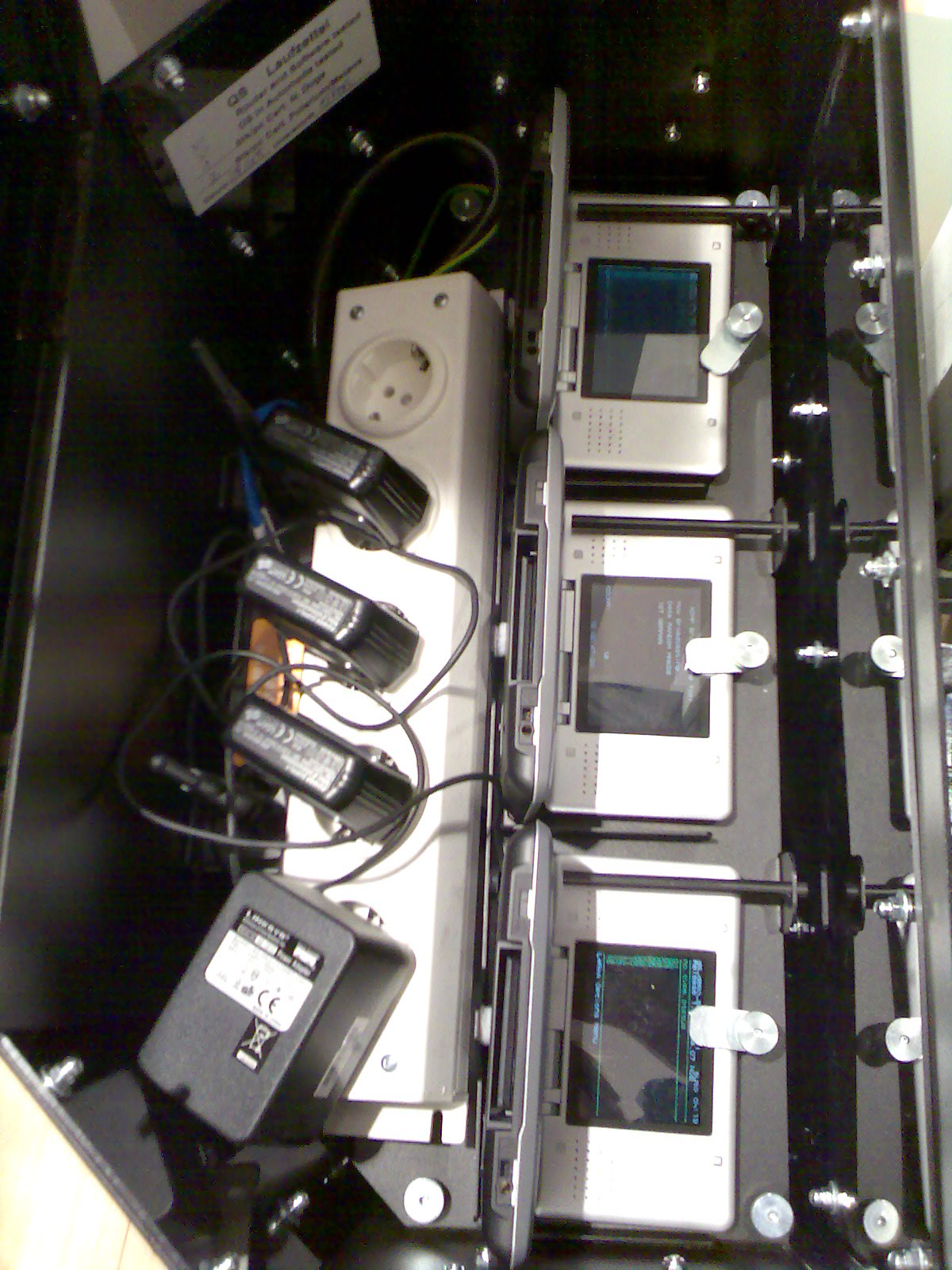 (The inside of a European DS Download Station from Nintendo of Europe, taken 15th of June 2007 by Code1038 (talk) 23:16, 3 June 2009 (UTC) at an undisclosed store (The Store does not want to be named).)